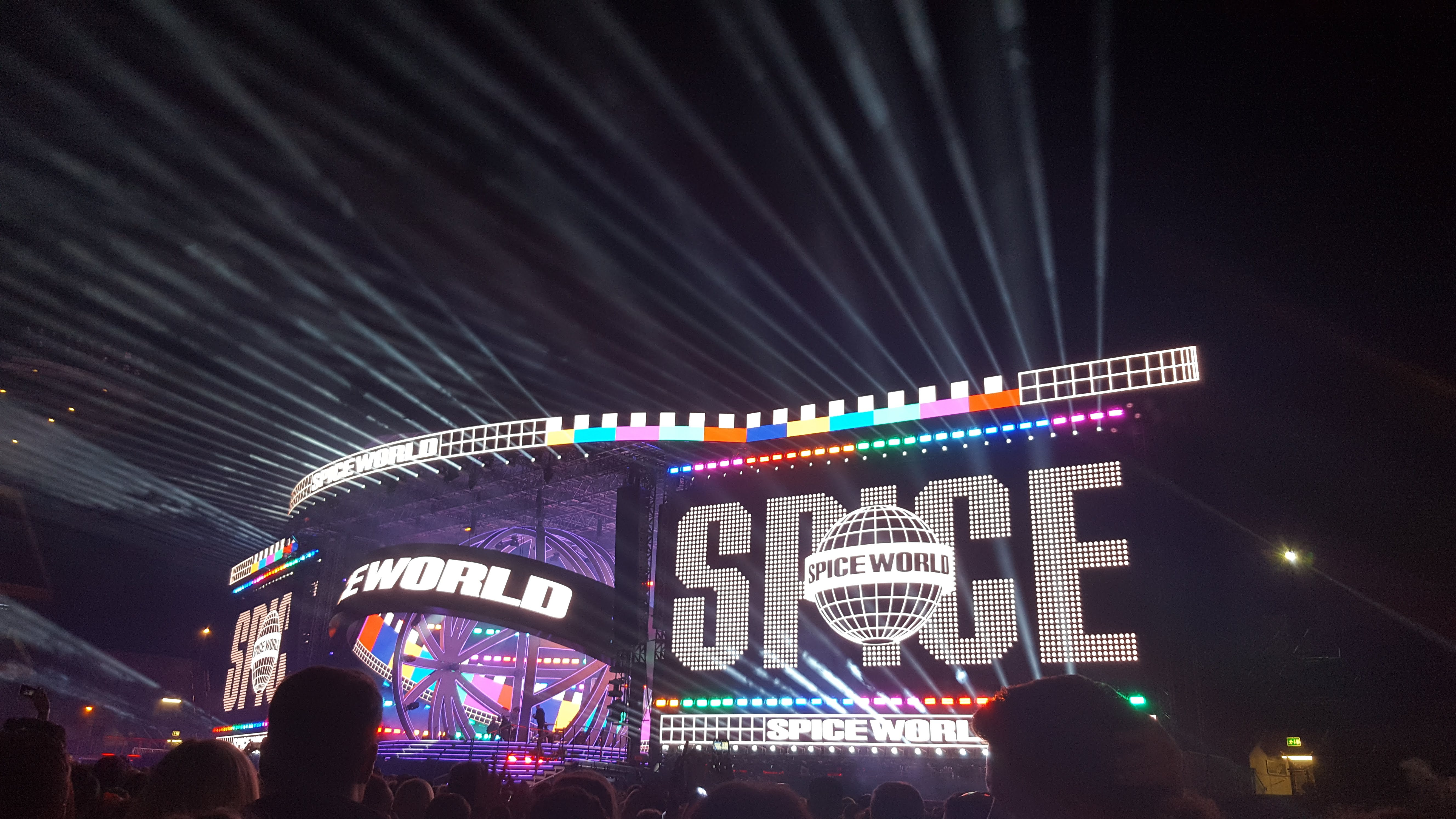 Spice Girls stage during their Spice World tour in Croke Park, Dublin